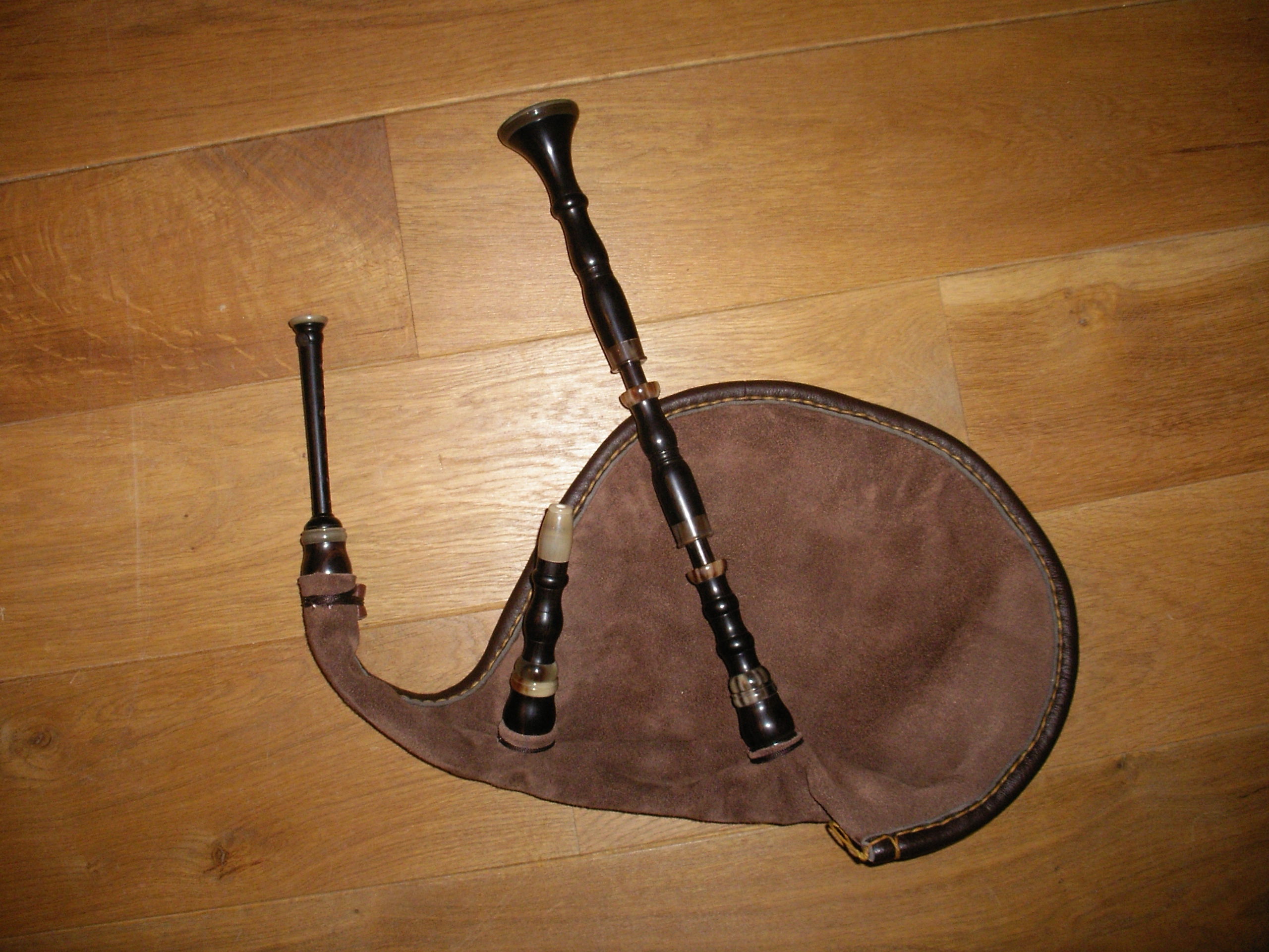 A typical "Biniou Kozh", instrument from Brittany (FRANCE) Made by Jorj Bothua.